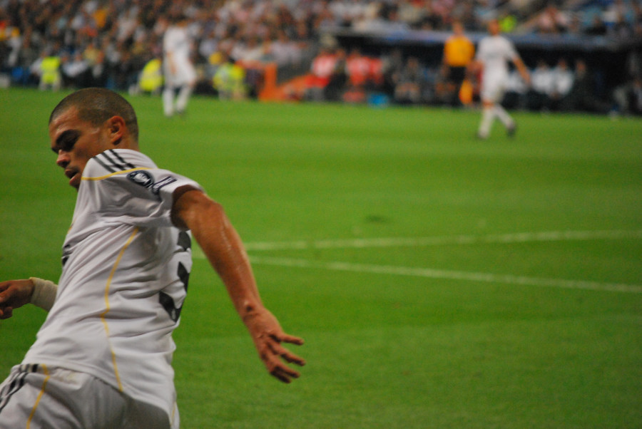 Champions League Real Madrid 3 - O.Marsella 0 30/09/09